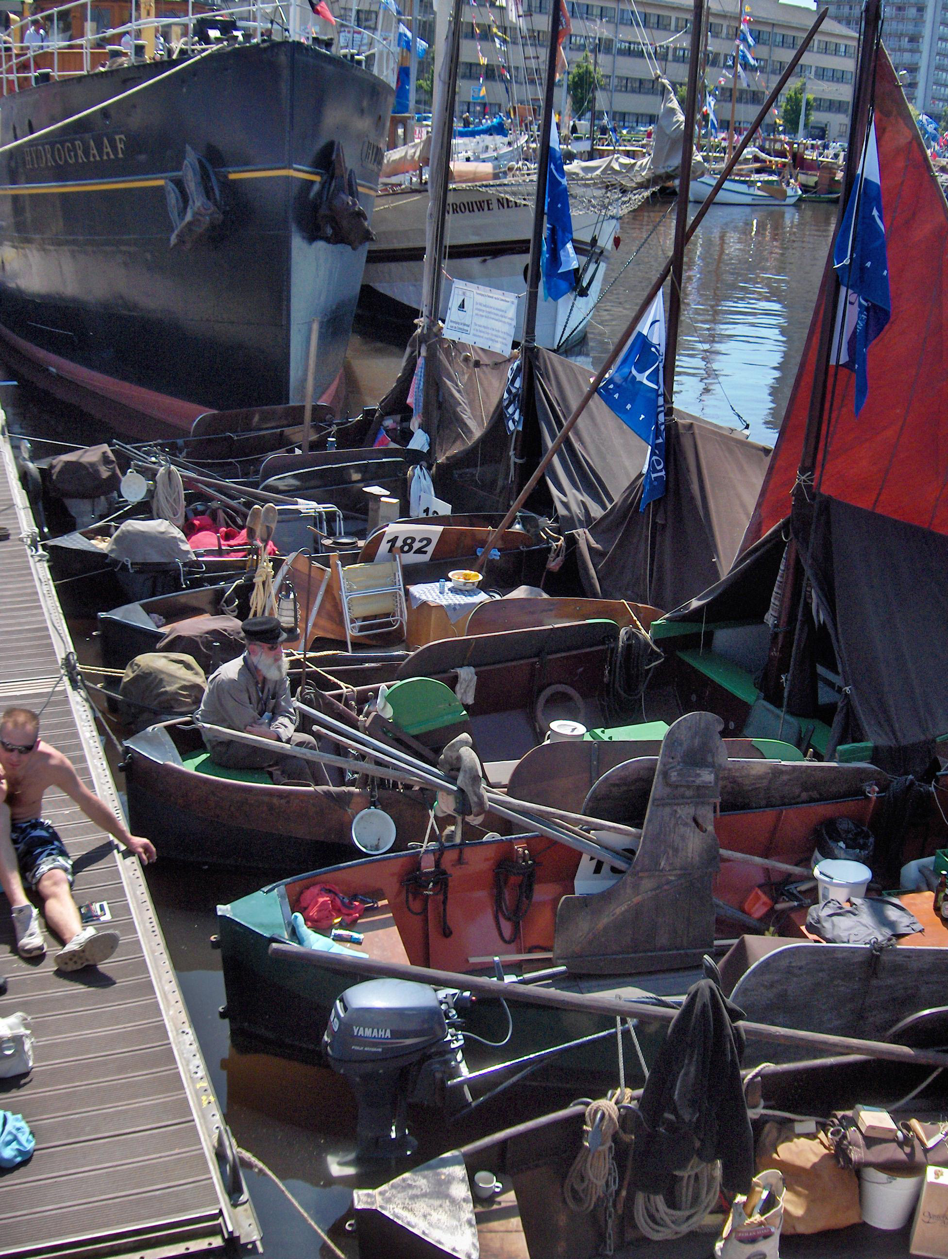 Salmon scow, a flat-bottomed Dutch fishing boat suited for river fishing